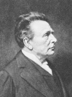 Ernst von Possart